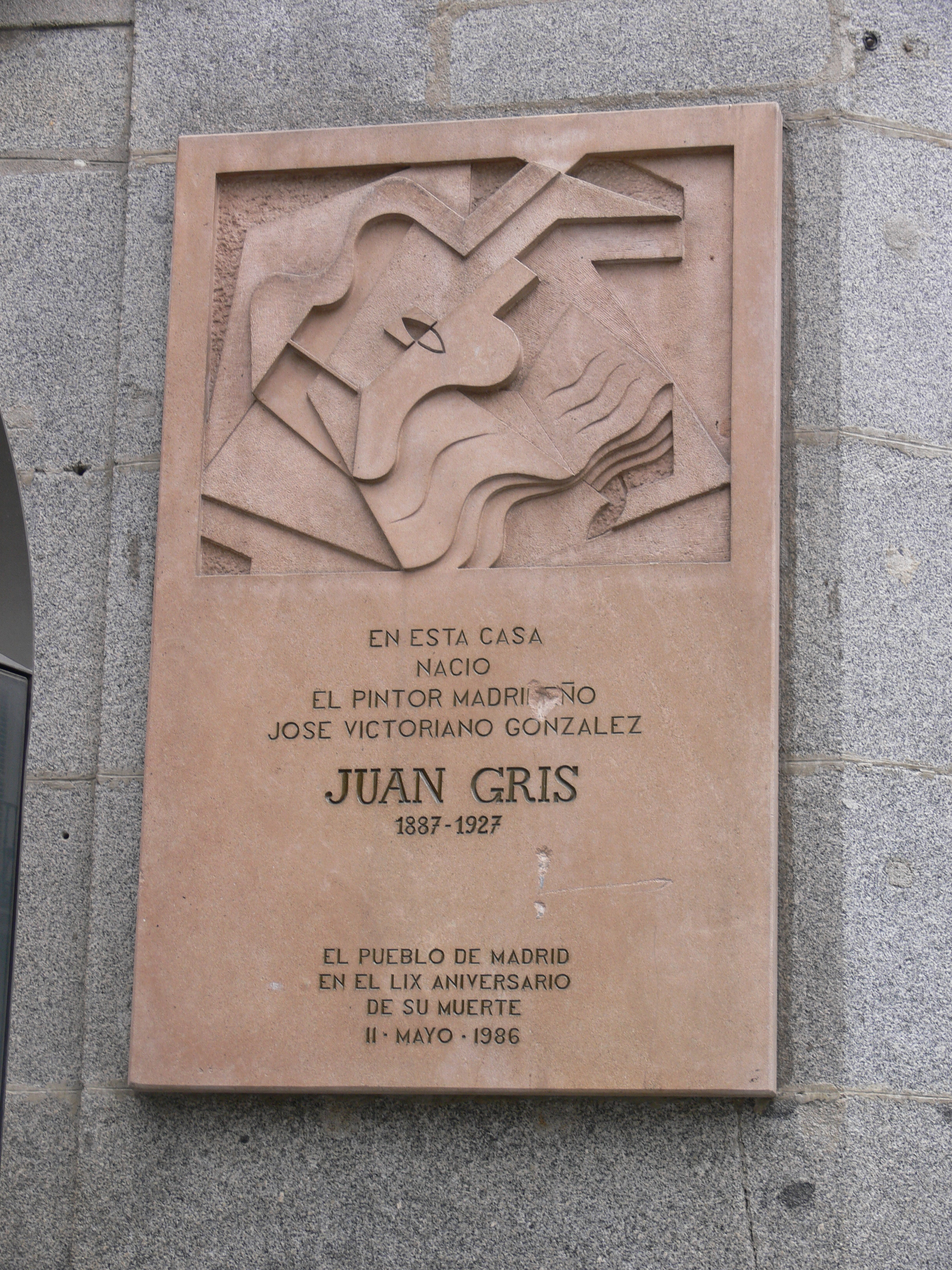 Plaque at Hotel Europa, Madrid (birthplace of painter Juan Gris)